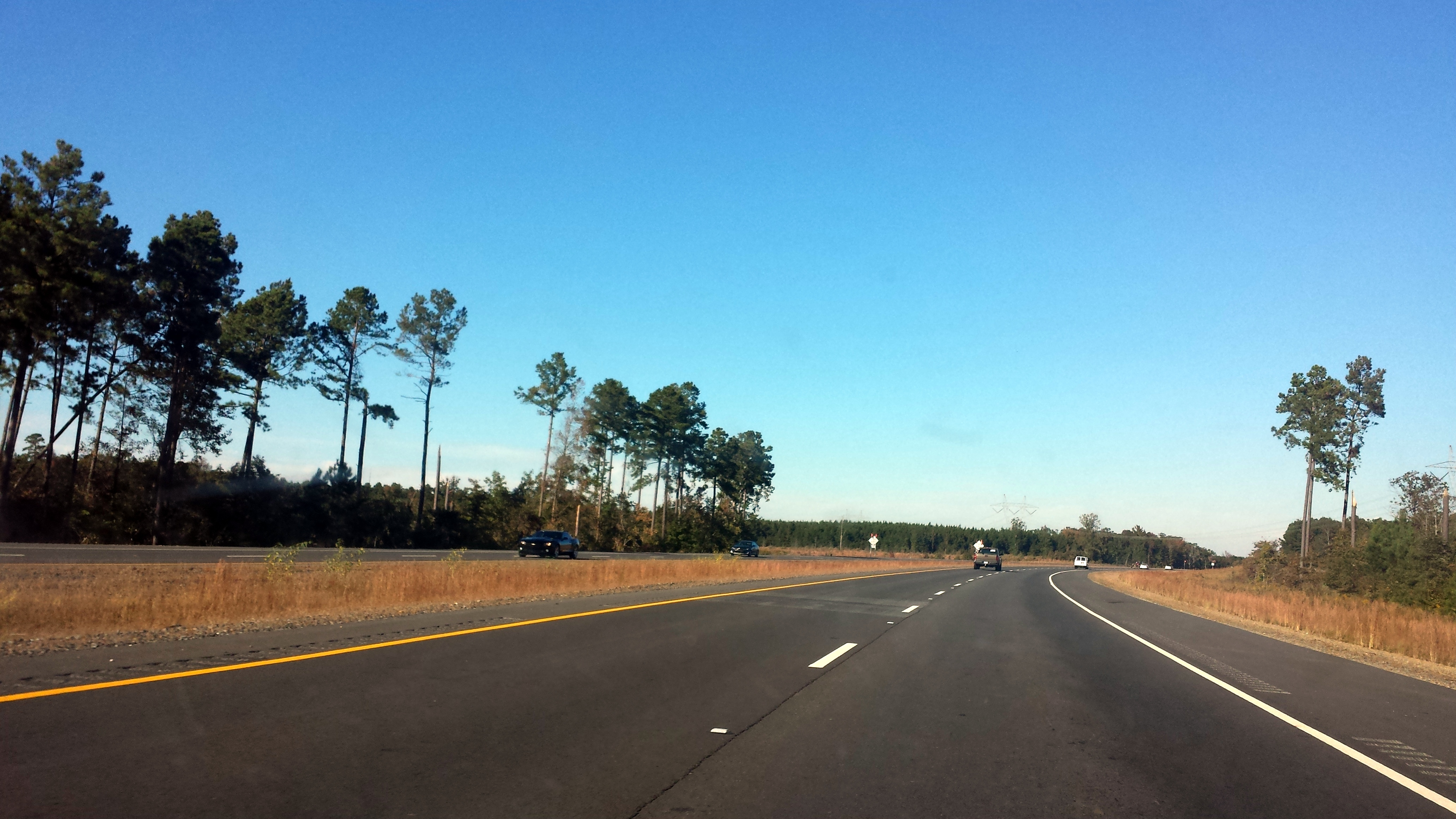 US 167 new alignment around Sheridan, AR